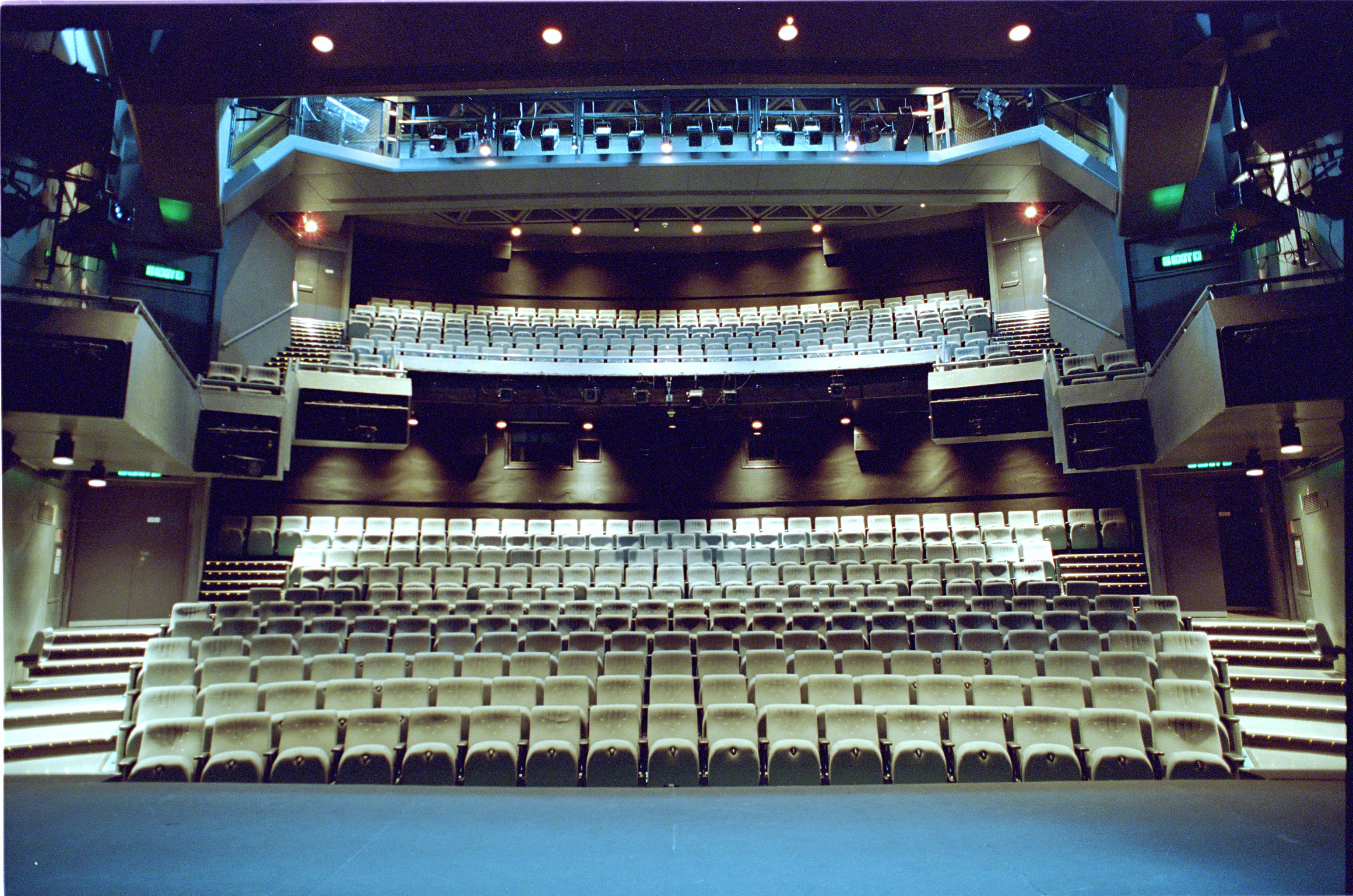 HKAC